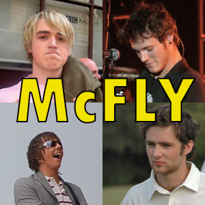 The four members of McFly. Clockwise from top left: Tom Fletcher, Dougie Poynter, Harry Judd and Danny Jones.